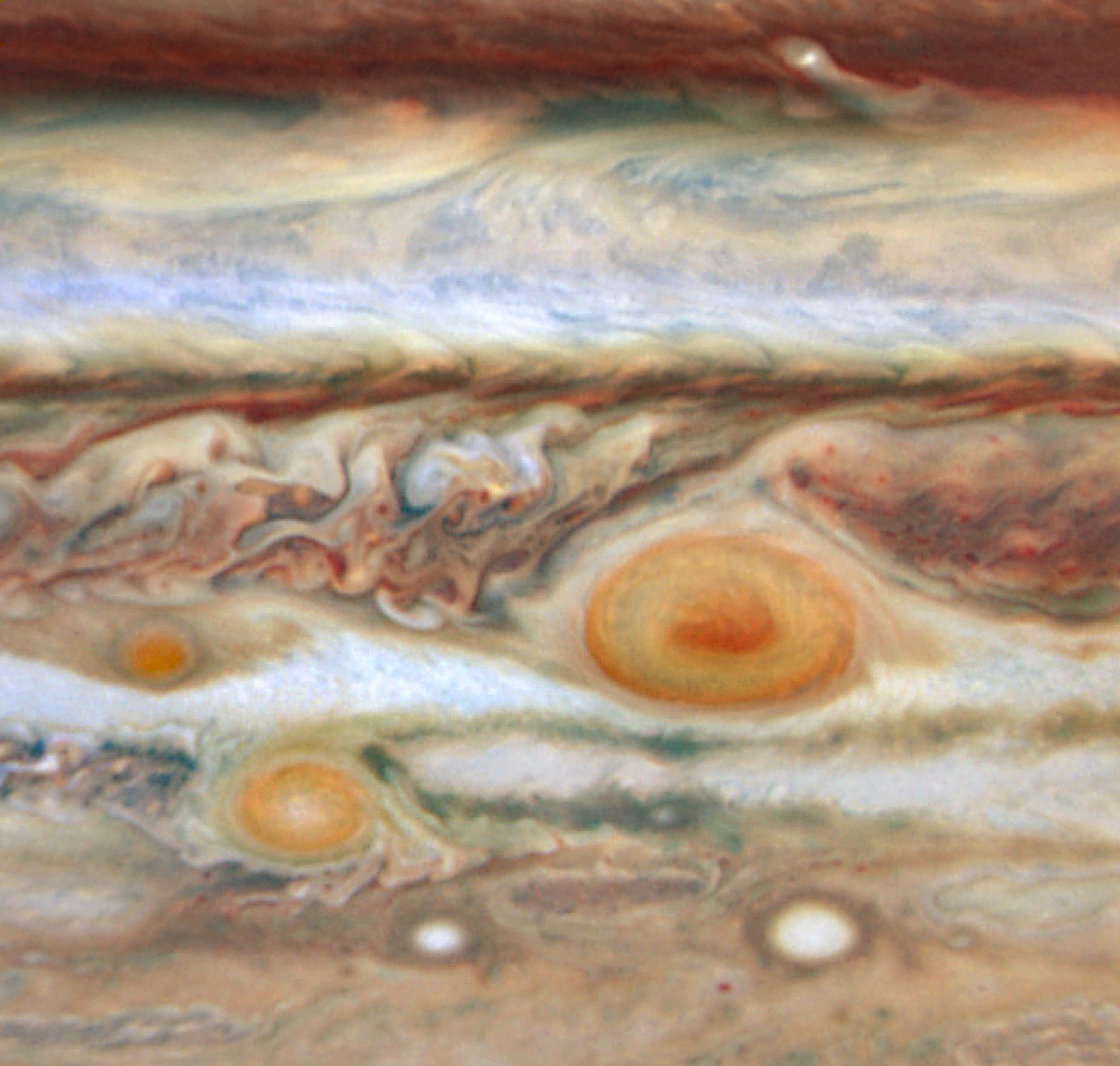 3rd Spot on Jupiter, taken with Hubble